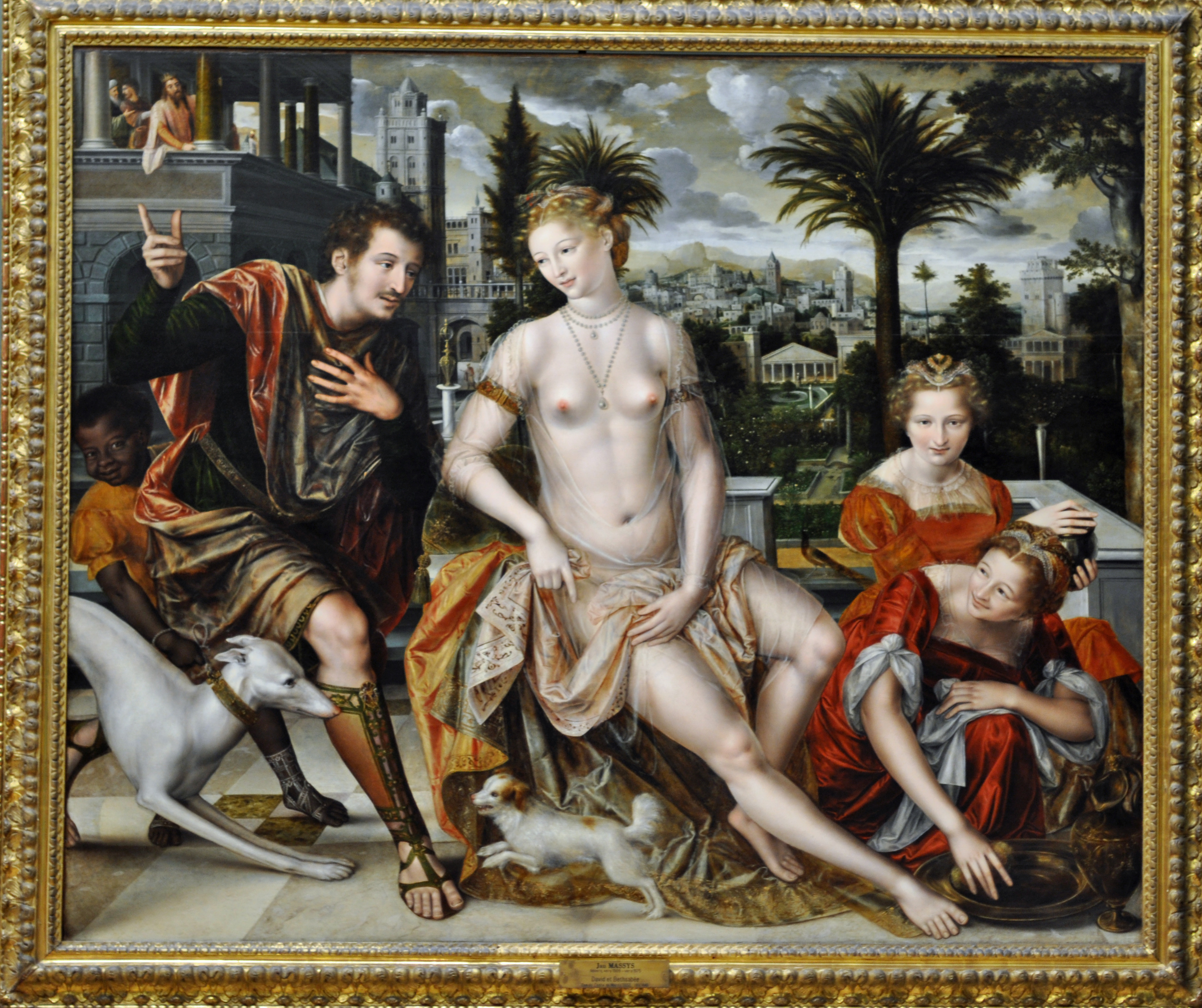 On a terrace at his palace, King David watches Bathsheba, the wife of Uriah. He desires her and sends a servant to fetch her